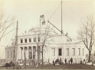 James Blackstone Memorial Library - Image of library under construction, circa 1895-6